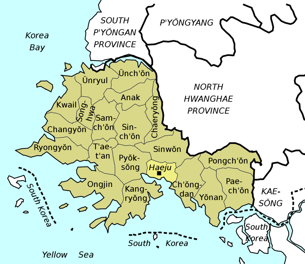 Counties & city of South Hwanghae Province, North Korea. Boundaries and coastline derived from existing maps on Commons.